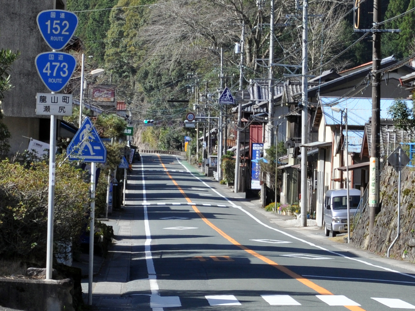 View of Route 152 and Route 473 in Tenryu-ku, Hamamatsu, Shizuoka, Japan.